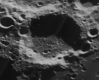 Oblique view of Hanno, facing west, on the moon.